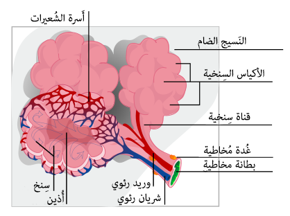 An alveolus (plural: alveoli, from Latin alveus, "little cavity"), is an anatomical structure that has the form of a hollow cavity. Mainly found in the lung, the pulmonary alveoli are spherical outcroppings of the respiratory bronchioles and are the primary sites of gas exchange with the blood.